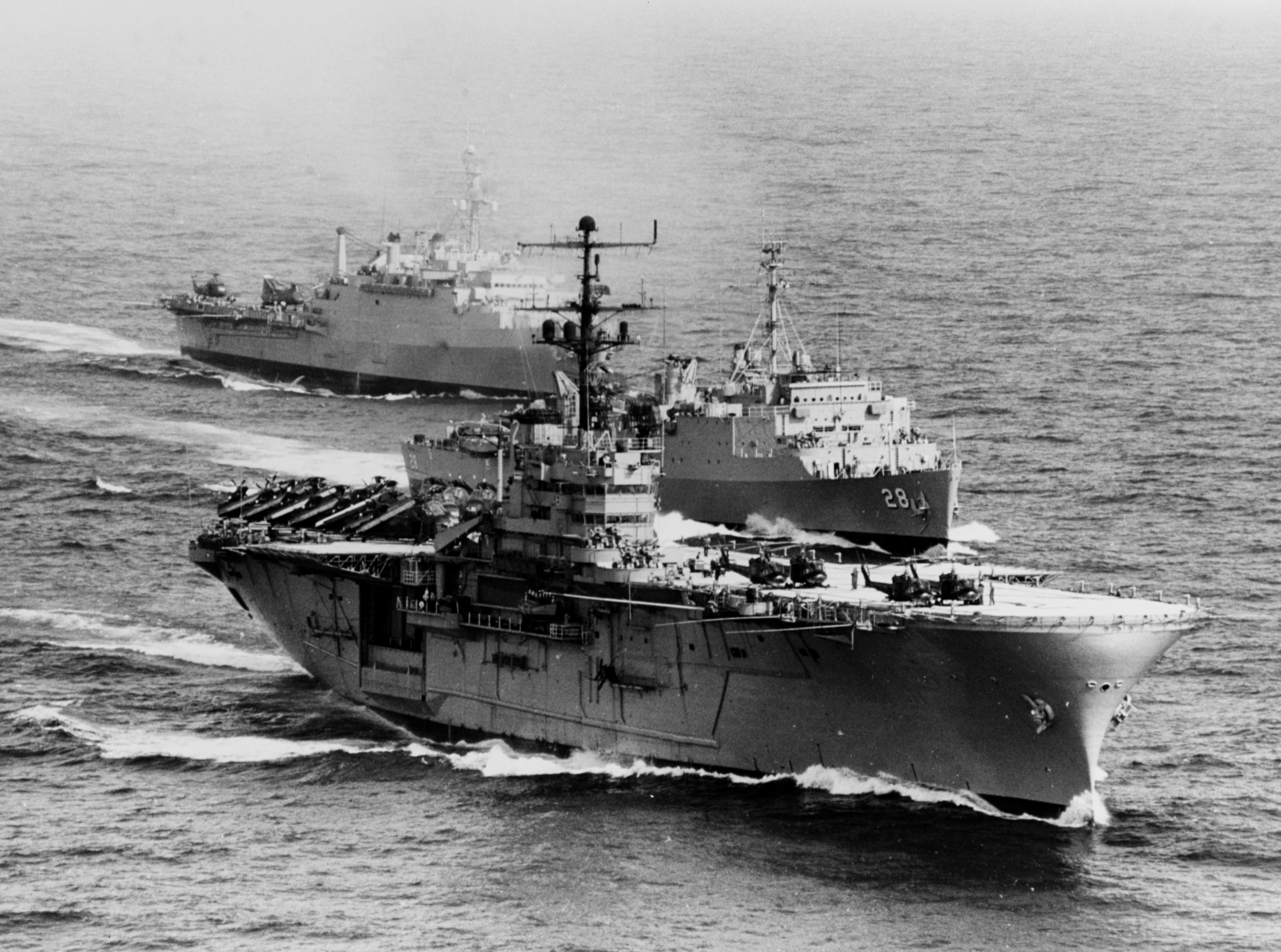 The three U.S. Navy ships of a 20-knot "amphibious ready group" steam toward the objective site during Operation Deckhouse V off Vietnam, 4 January 1967. The ships are: USS Iwo Jima (LPH-2), USS Thomaston (LSD-28) and USS Vancouver (LPD-2).